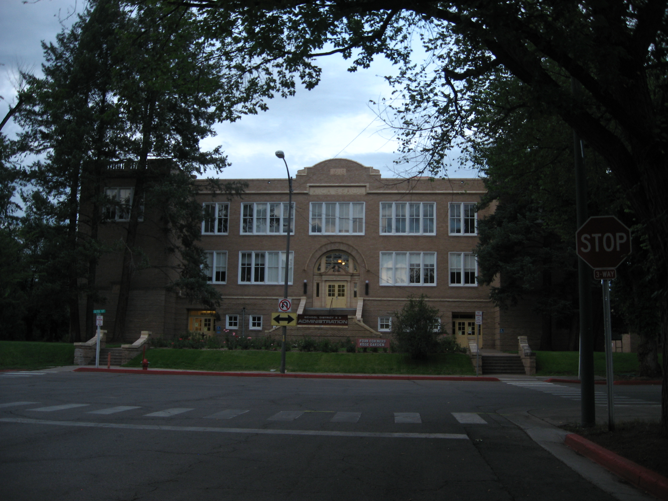 NRHP-listed Durango High School in Durango, Colorado. It is currently a district administrative building.